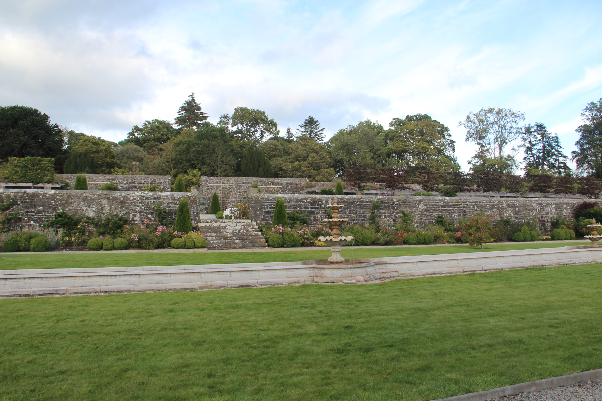 Lower walled garden.